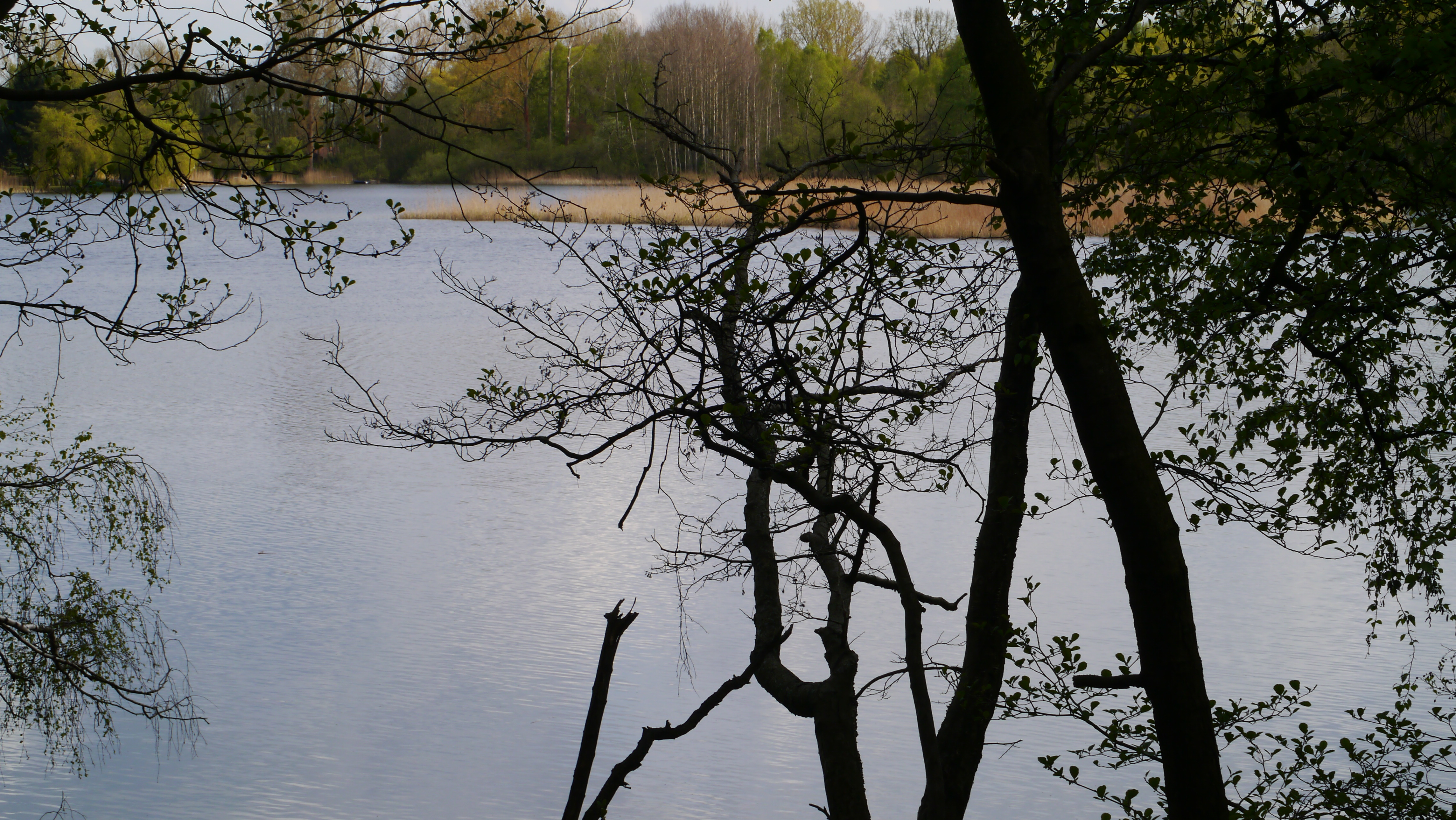 NSG Bagower Bruch (CDDA 162328) Lake